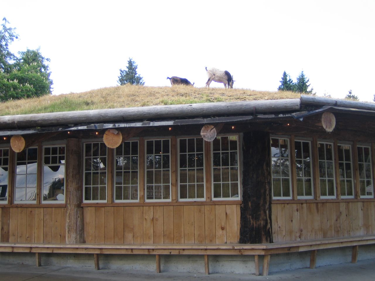 Goats grazing on the thatched roof